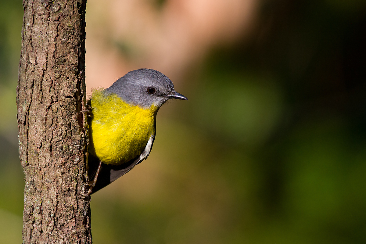 Another image from Warriewood Wetlands last week.